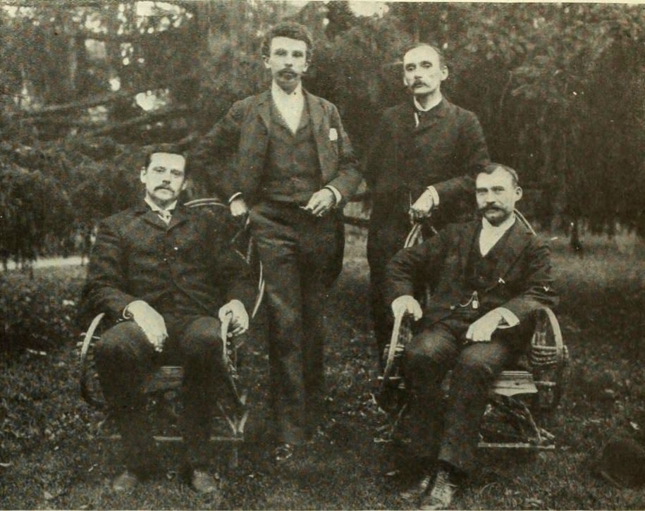 First meeting of all of the members of the K.M.C.D. Syndicate on September 22, 1895, who went on to found the first film production company, the American Mutoscope and Biograph Company. From the left: Henry N. Marvin, William Kennedy Laurie Dickson, Herman Casler, and Elias Bernard Koopman. Published on page 45 of the July 1922 Photoplay.